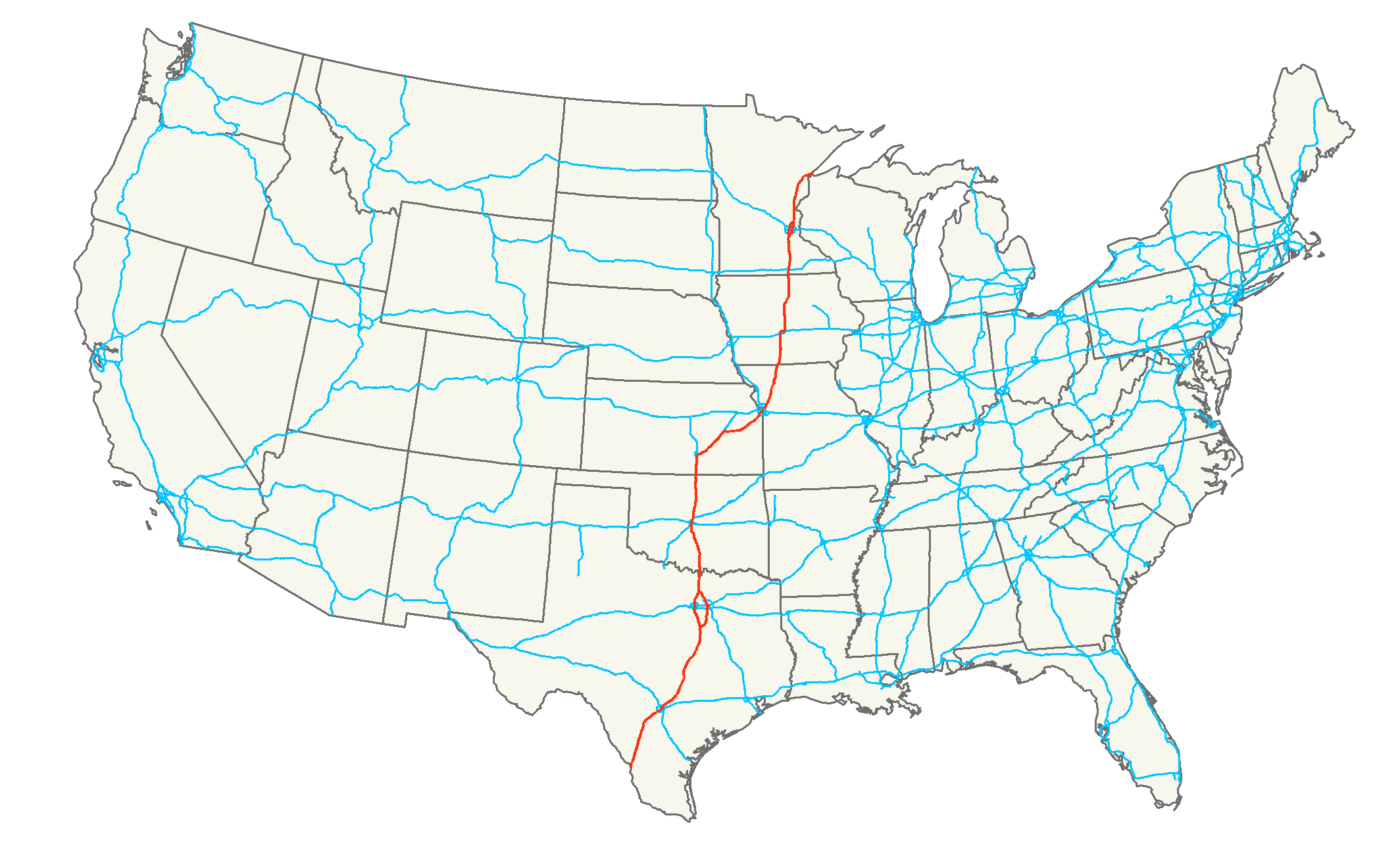 Map of Interstate 35